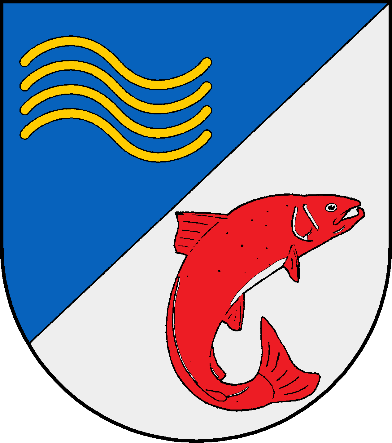 Coat of arms of the municipality Lasbek in Schleswig-Holstein, Germany.